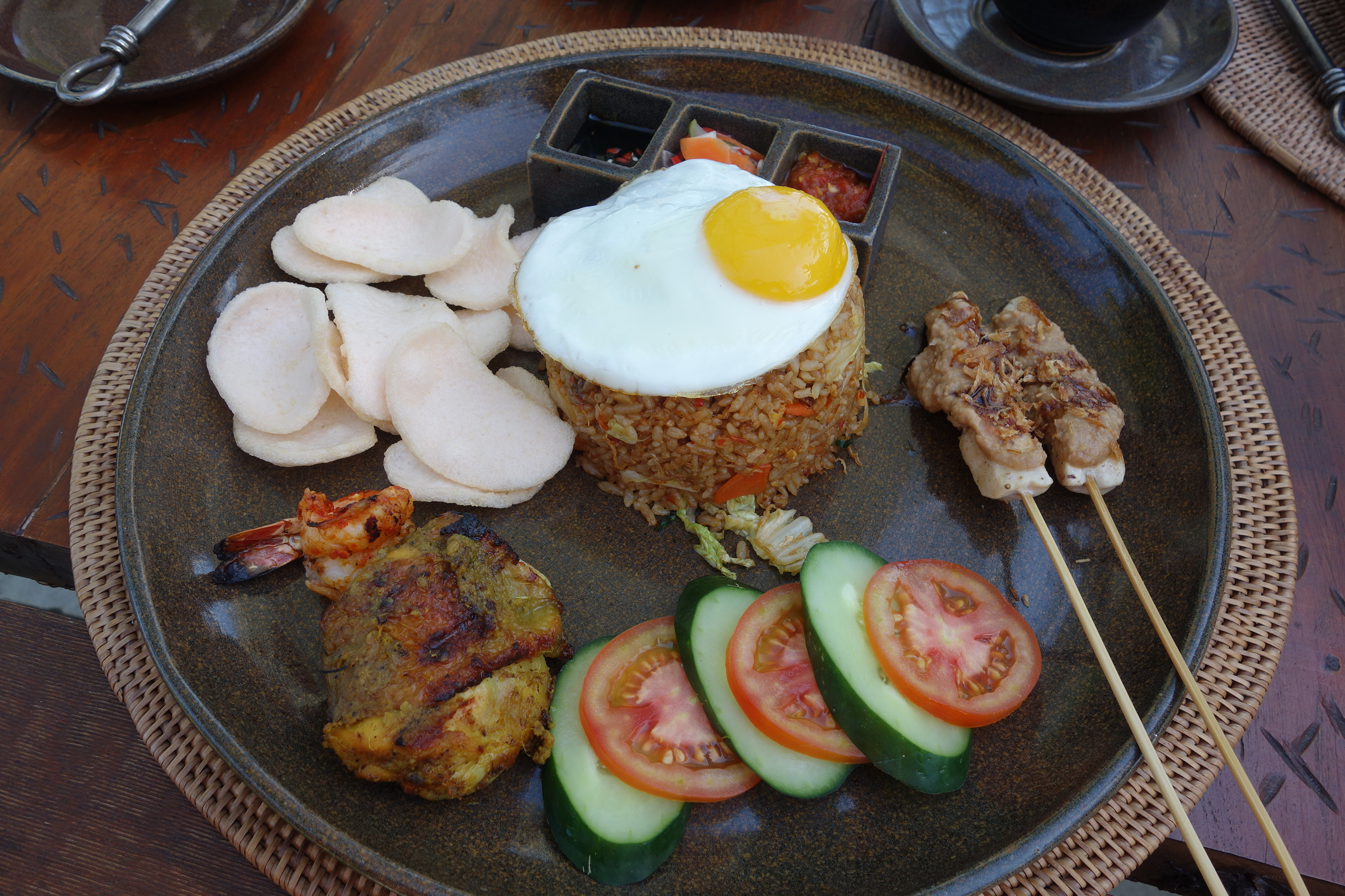 A portion of nasi goring (fried rice) in a hotel on the island of Lombok